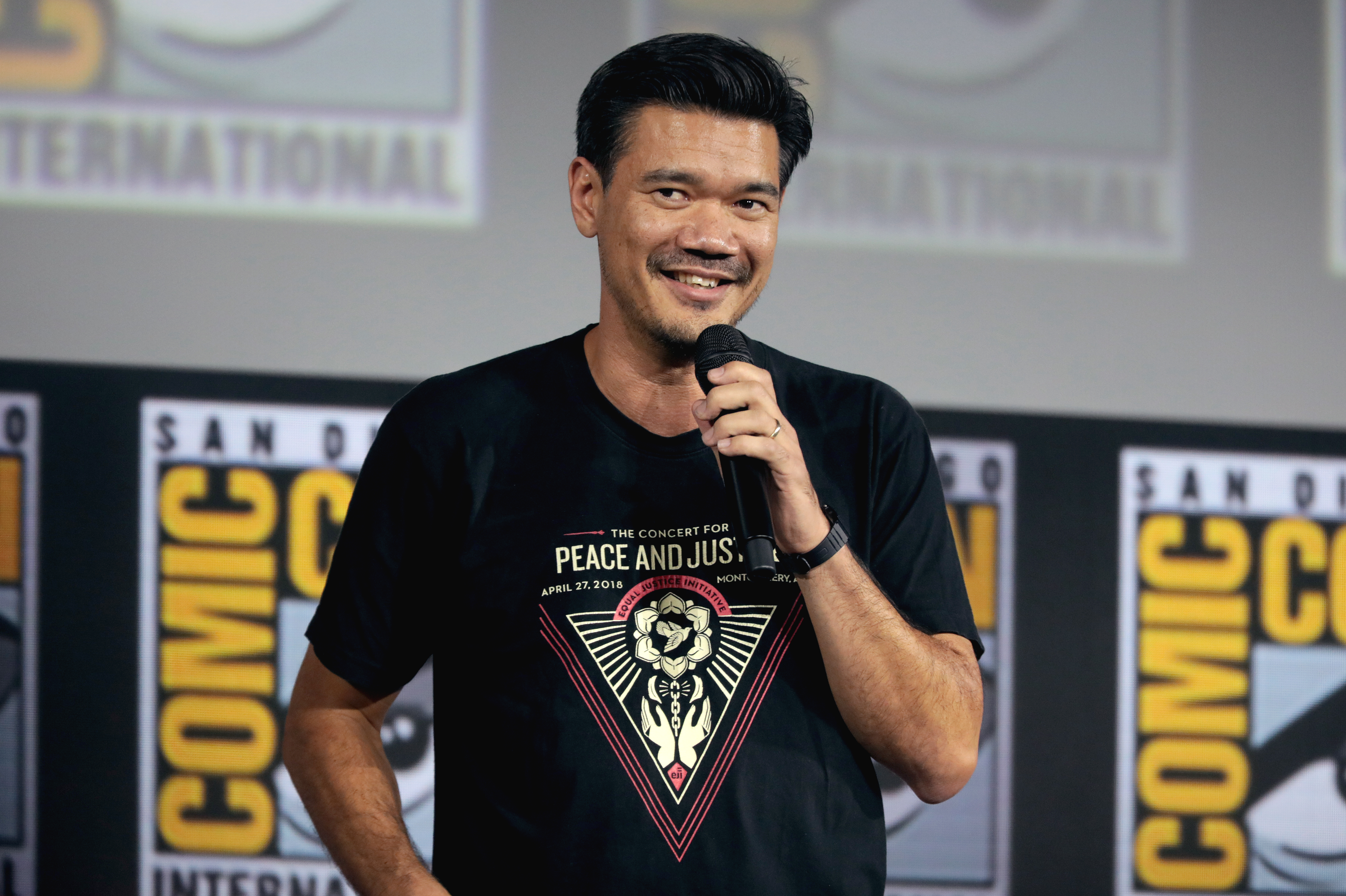 Destin Daniel Cretton speaking at the 2019 San Diego Comic Con International, for "Shang-Chi and the Legend of the Ten Rings", at the San Diego Convention Center in San Diego, California.